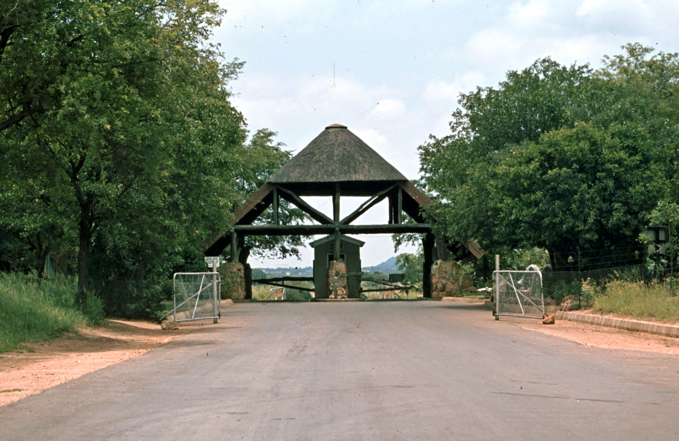 Phalaborwa Gate, Kruger National Park (1980)